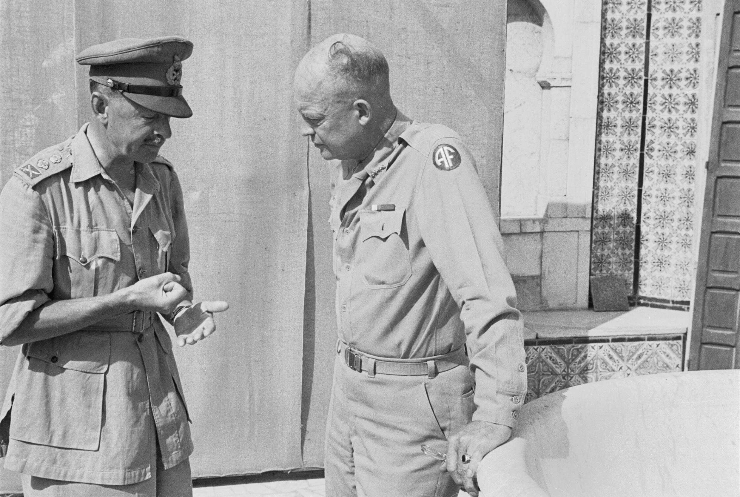 General Alexander, Deputy Commander-in-Chief Allied Forces in North Africa, discussing future operations with the Supreme Commander, General Eisenhower, in Tunisia, 26 July 1943. Field Marshal The Earl Alexander of Tunis (1891 - 1969): General Alexander, Deputy Commander in Chief Allied Forces in North Africa, discussing future operations with the Supreme Commander, General Eisenhower in Tunisia.